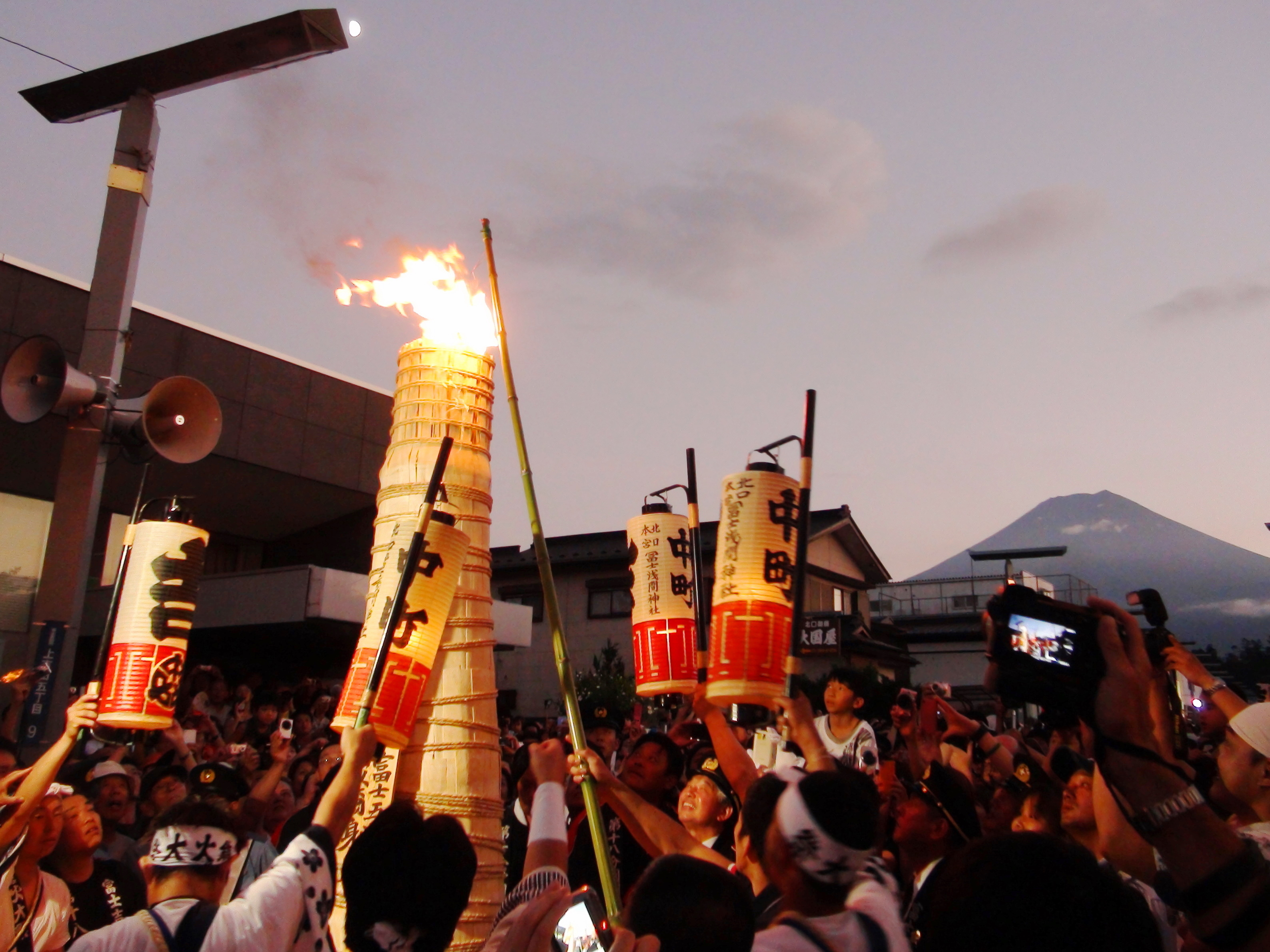 Ignition torches in the main street of Yoshida Fire Festival